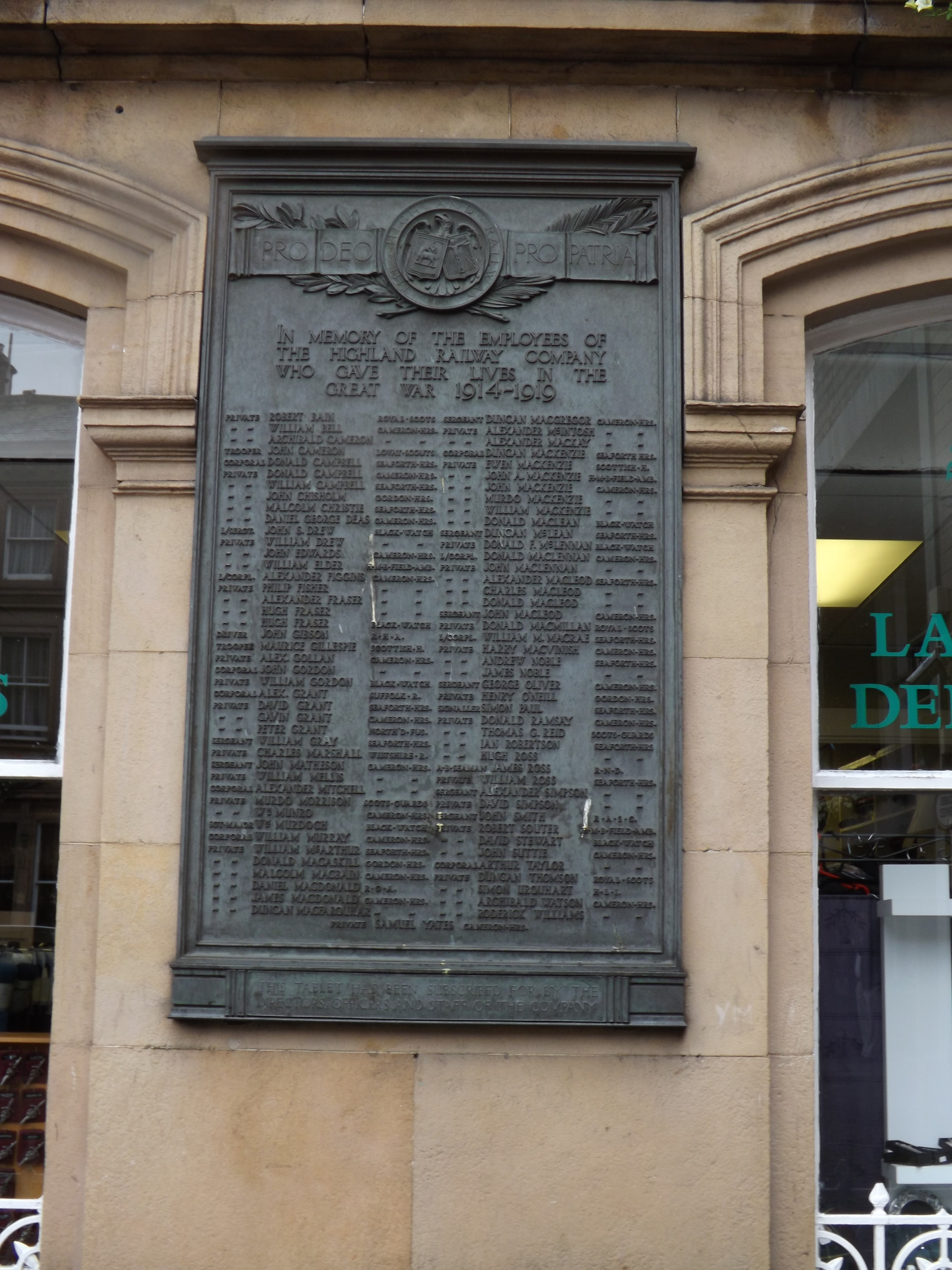 The Highland Railway first world war memorial, just outside Inverness railway station.